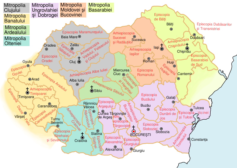 Organisation Romanian Orthodox Church